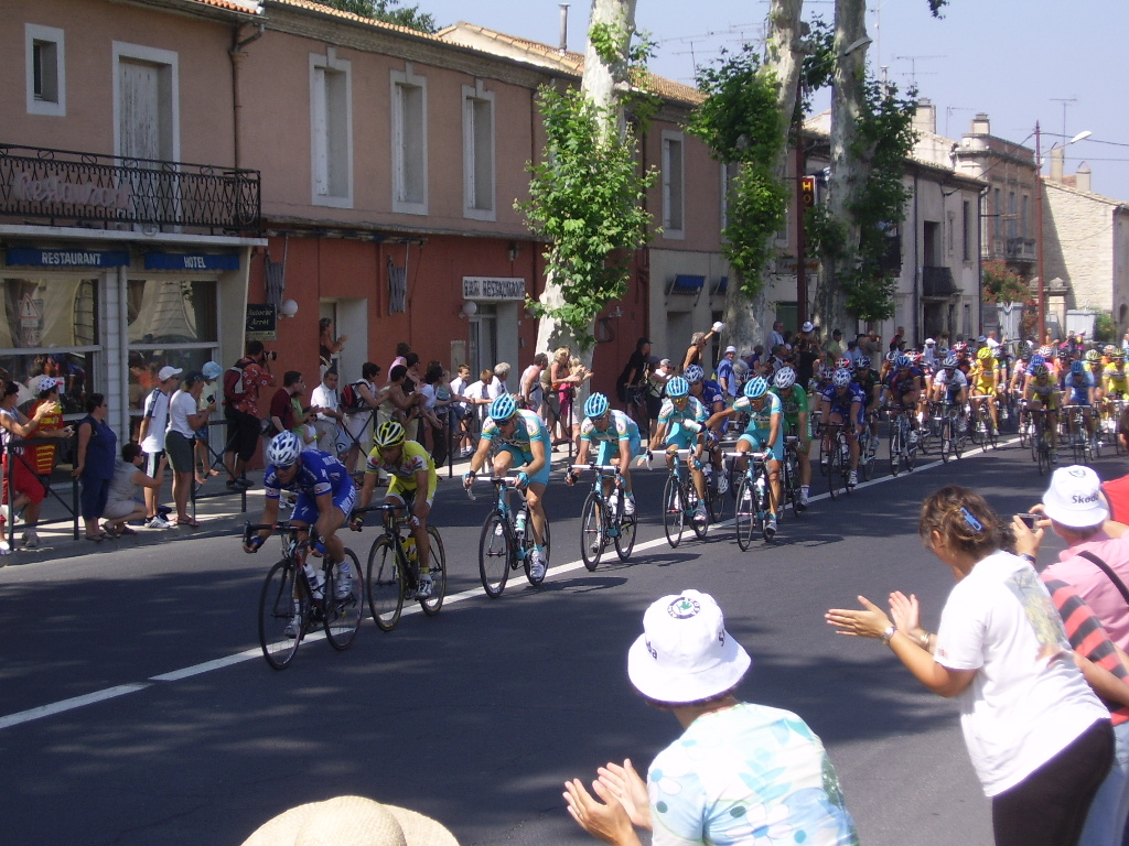 The Tour de France in Lunel